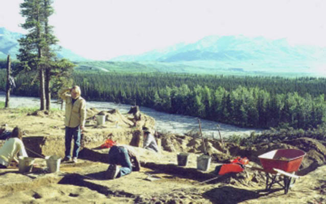 Three of our Nationally designated landmarks date back beyond 10,000 years ago to the time of now-extinct Pleistocene animals like the mammoth and mastodon and to the early peoples of Alaska who hunted them. Dry Creek Archaeological Site is one of these landmarks.